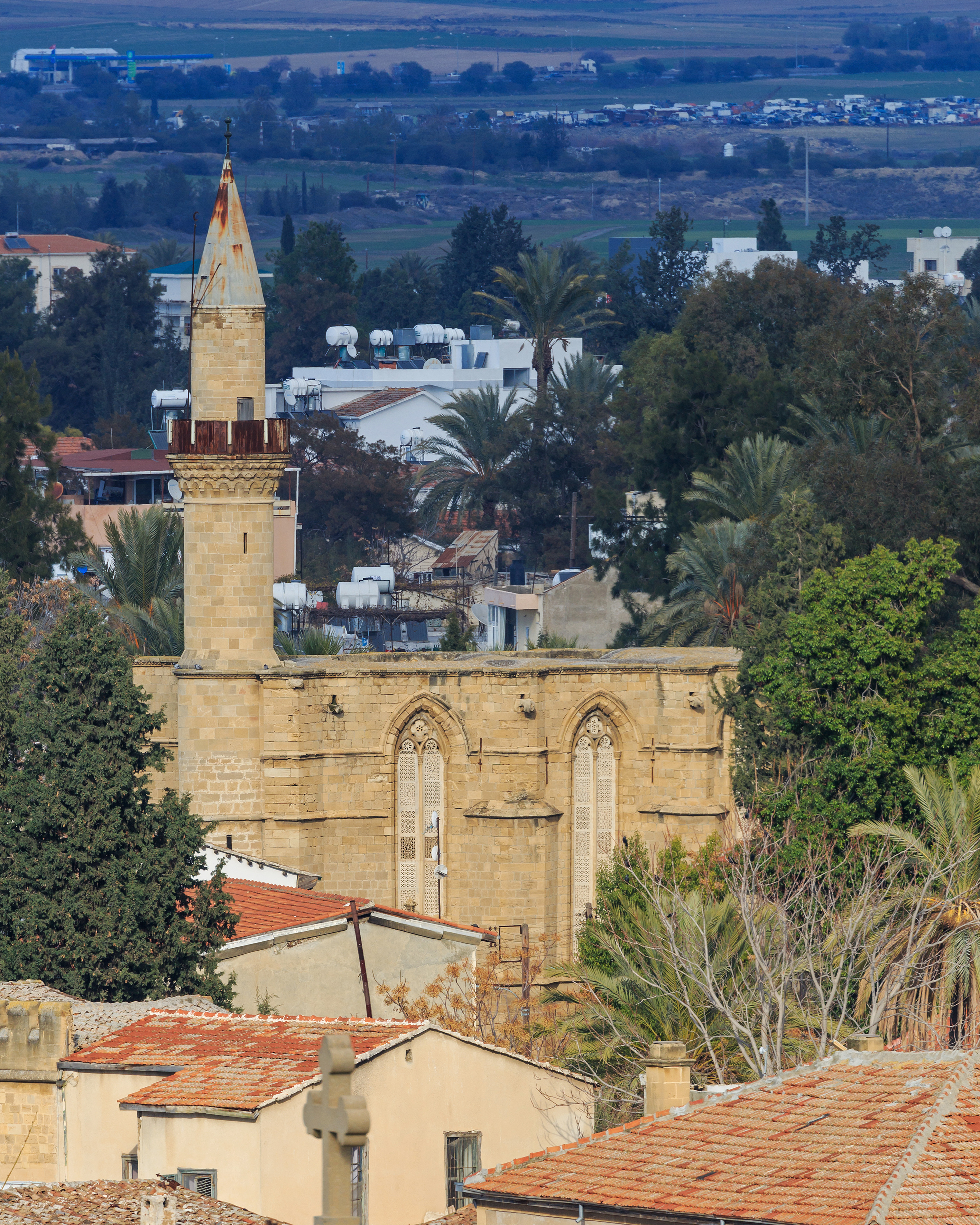 View of Haydar Pasha Mosque from Shacolas Tower (Ledra Street Observatory) in Nicosia, Cyprus